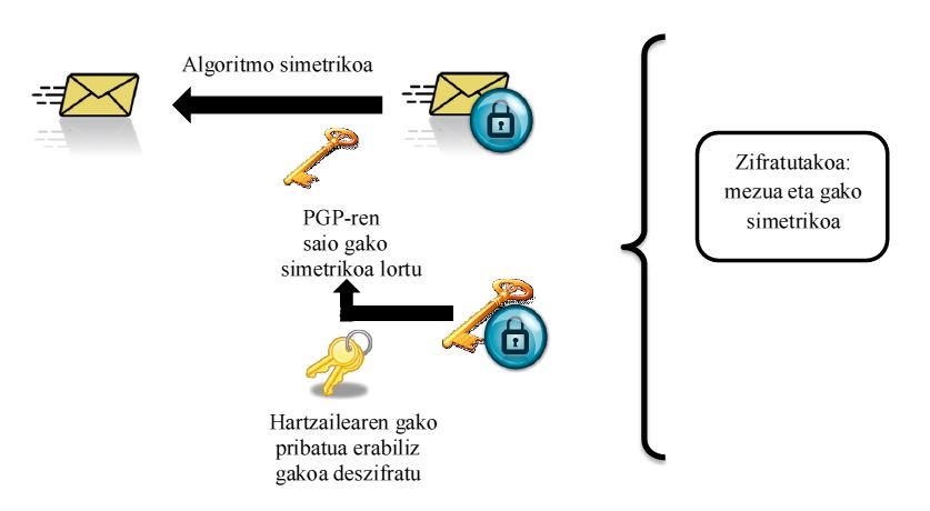 PGP Deszifratzea